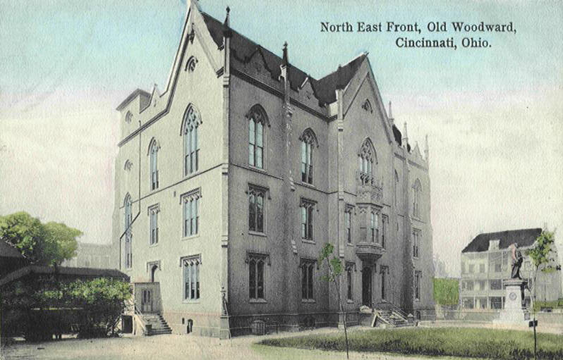 Lithograph of the Old Woodward School building in Cincinnati, Ohio constructed in 1855 and demolished in 1907. Originally published as postcards in that same period. North east front, Old Woodward High School